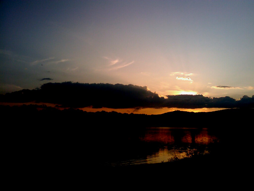 Sunset at Spruce Run